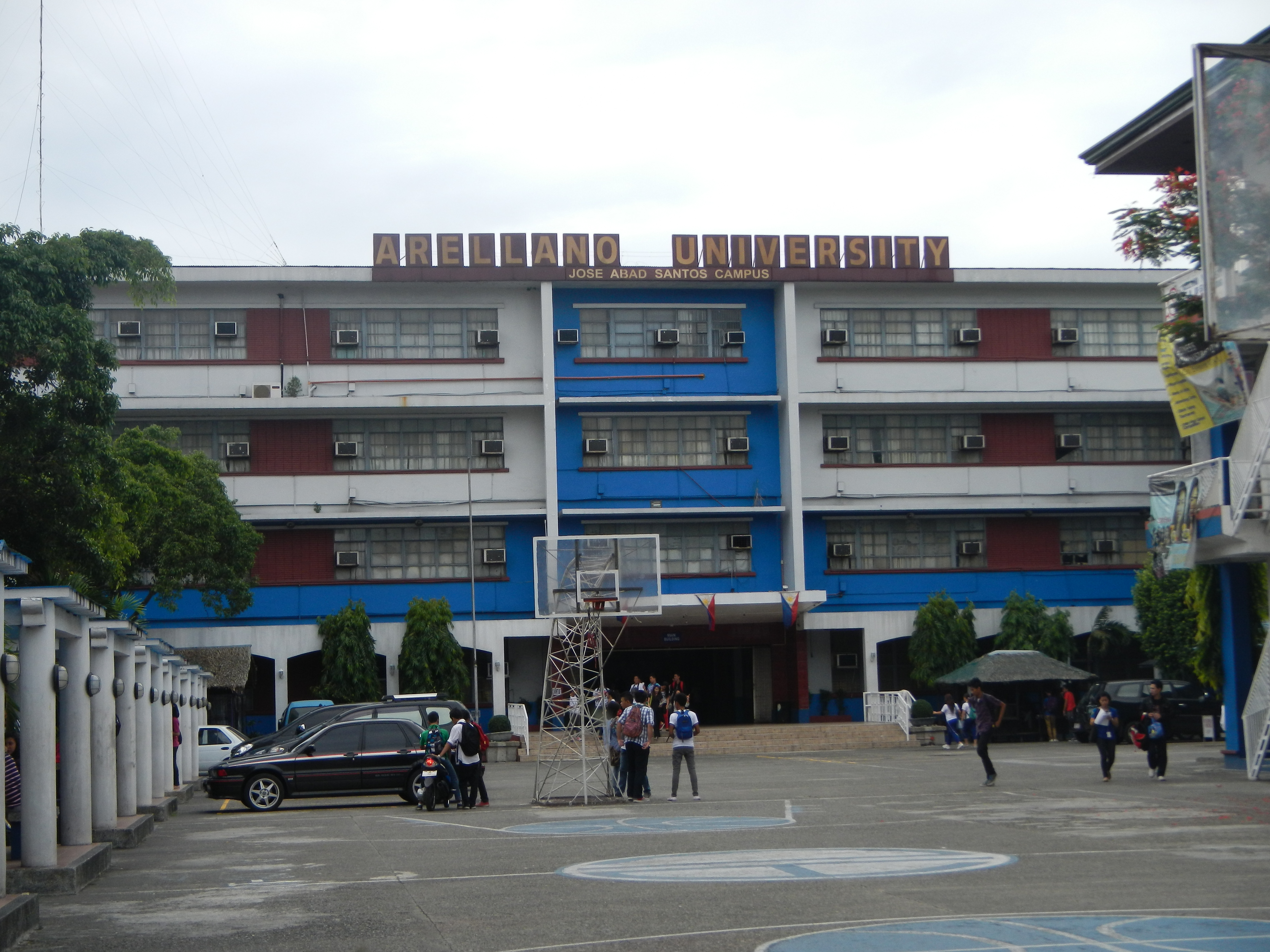 Arellano University (AU) – Jose Abad Santos Campus - Pasay City[1] Taft Avenue, 3058 Coordinates: 14°33'11"N 120°59'53"E --- Campuses of Arellano University[2] The Arellano University in Taft Avenue, Pasay[3] (Pamantasang Arellano sa Pasay in Filipino), officially as Arellano University – José Abad Santos Campus (abbreviated as AU-JASC), is a private, nonsectarian university located in Pasay, Philippines and was one of the constituent universities of Arellano University and was established in 1945 as José Abad Santos High School. [4] The campus is the home to the José Abad Santos High School, one of the well-known high school institution within the city and was the home to over 1,400 students. The campus was named after José Abad Santos y Basco, the fifth Chief Justice of the Supreme Court of the Philippines who also served as the acting President of the Philippines during World War II. Arellano University[5] Arellano University (Pamantasang Arellano in Filipino and commonly abbreviated as A.U.) is a private, nonsectarian university located in Manila, Philippines, established in 1938 by Florentino Cayco, Sr. as the Arellano Law College which was later known as Arellano Colleges. The university was named after Cayetano Arellano.